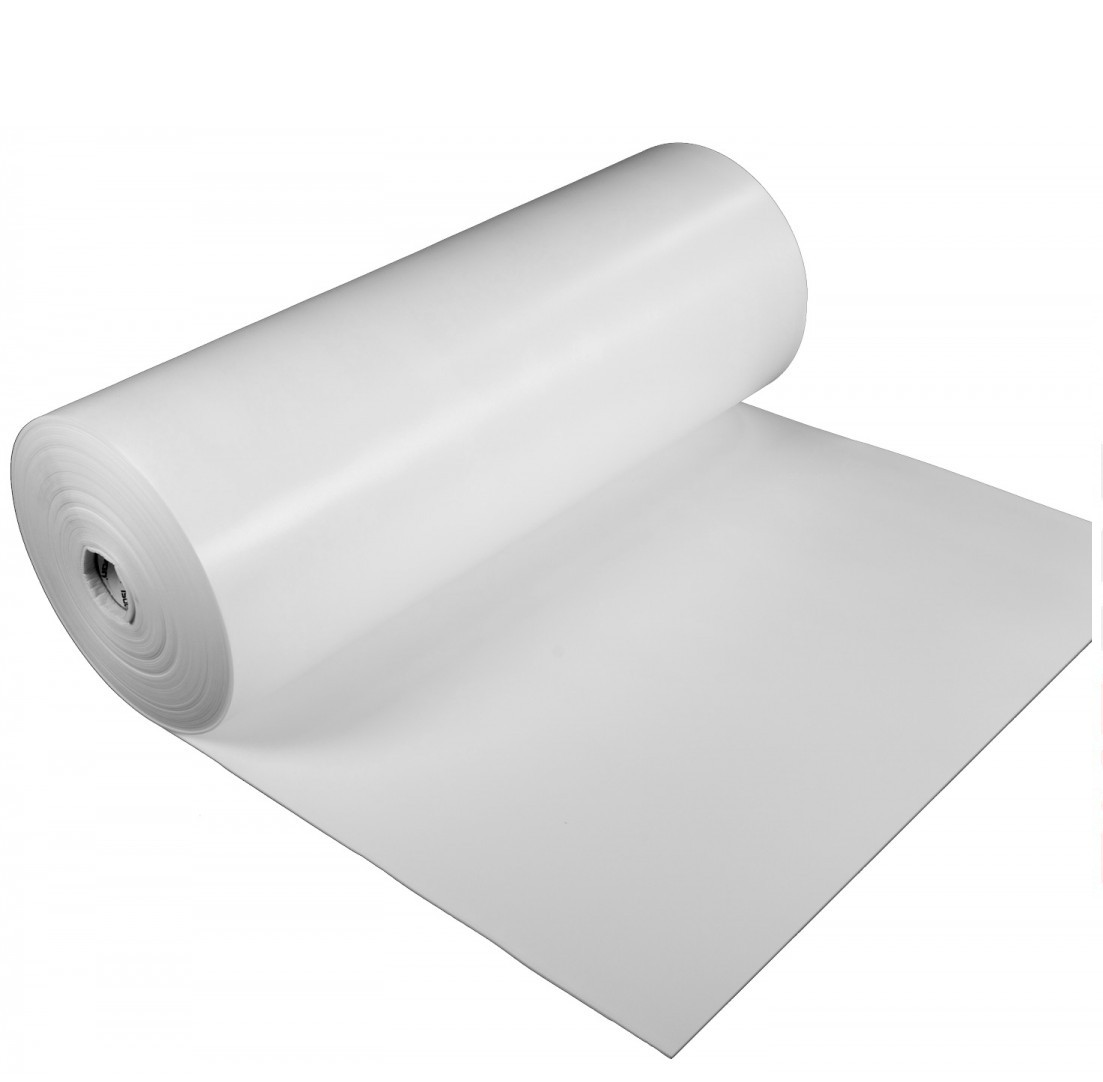 A roll of physically crosslinked polyethylene foam.